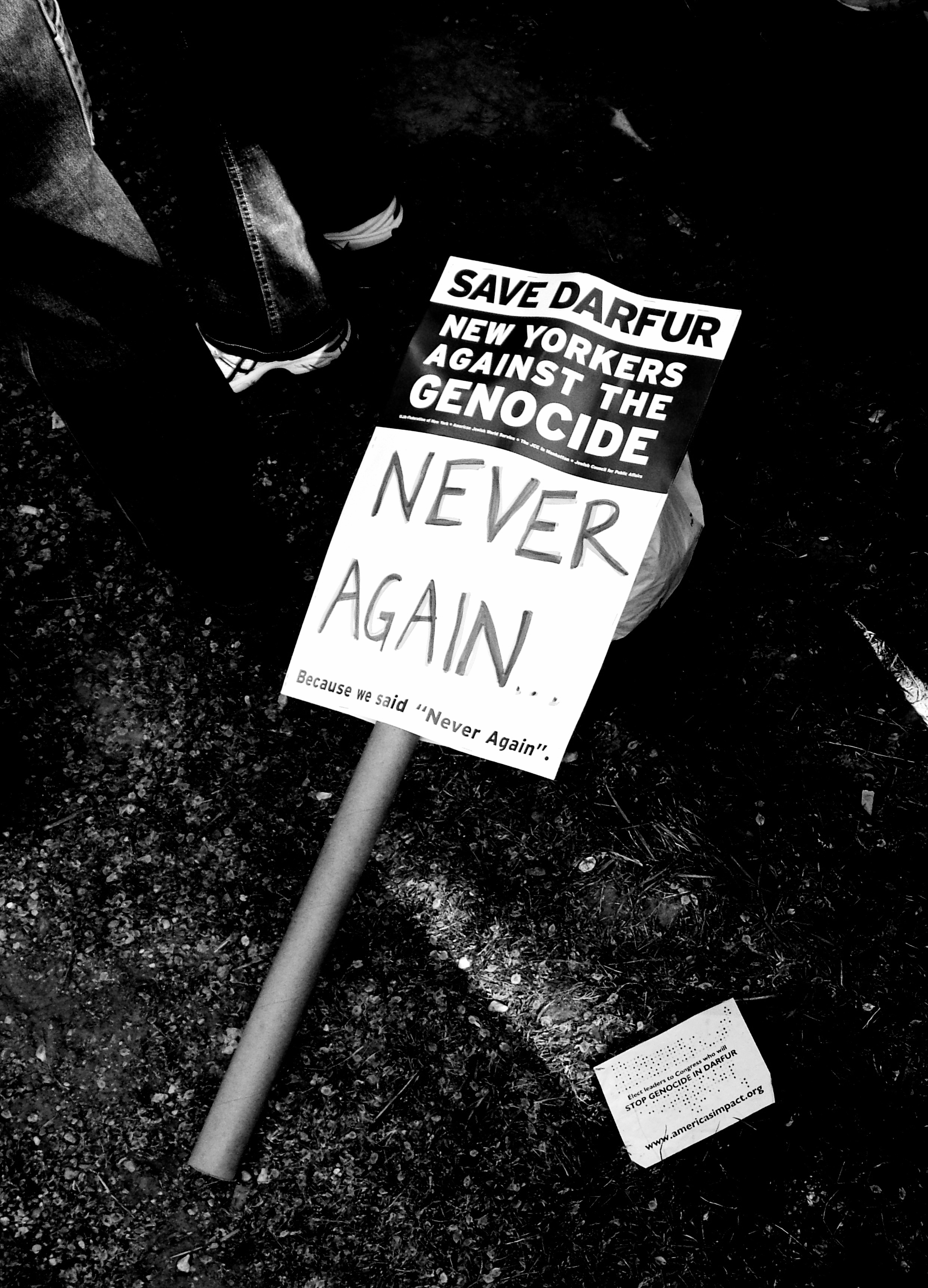 Original caption states: "Save Darfur. Get involved. Spread the word. Demand action. It will be one of the most important things you ever do. Taken with a Fujifilm FinePix S7000.